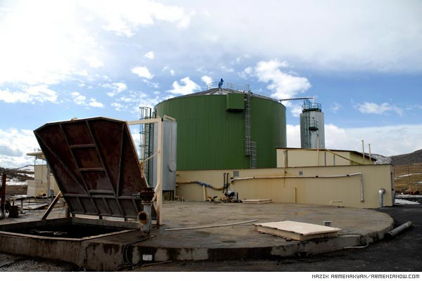 lusakert